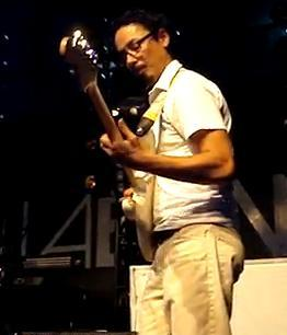 Tommy Guerrero 2009